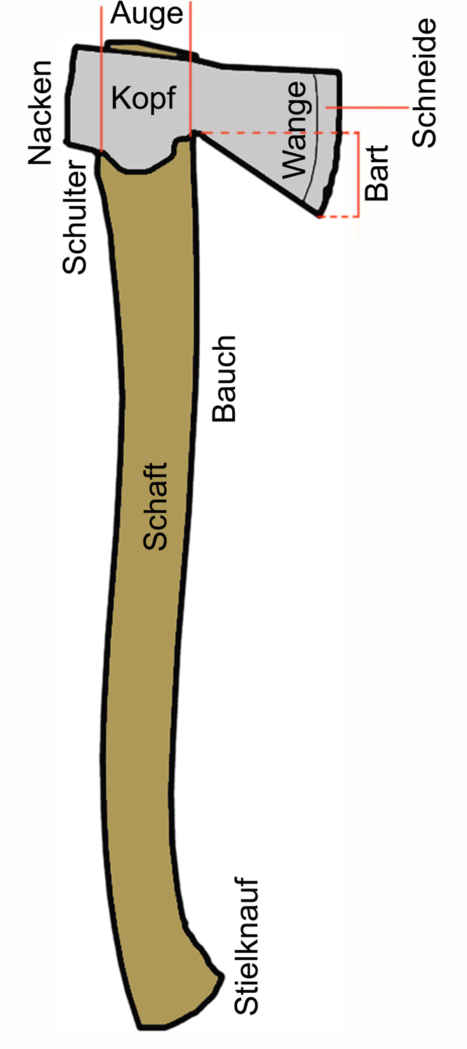 Ax